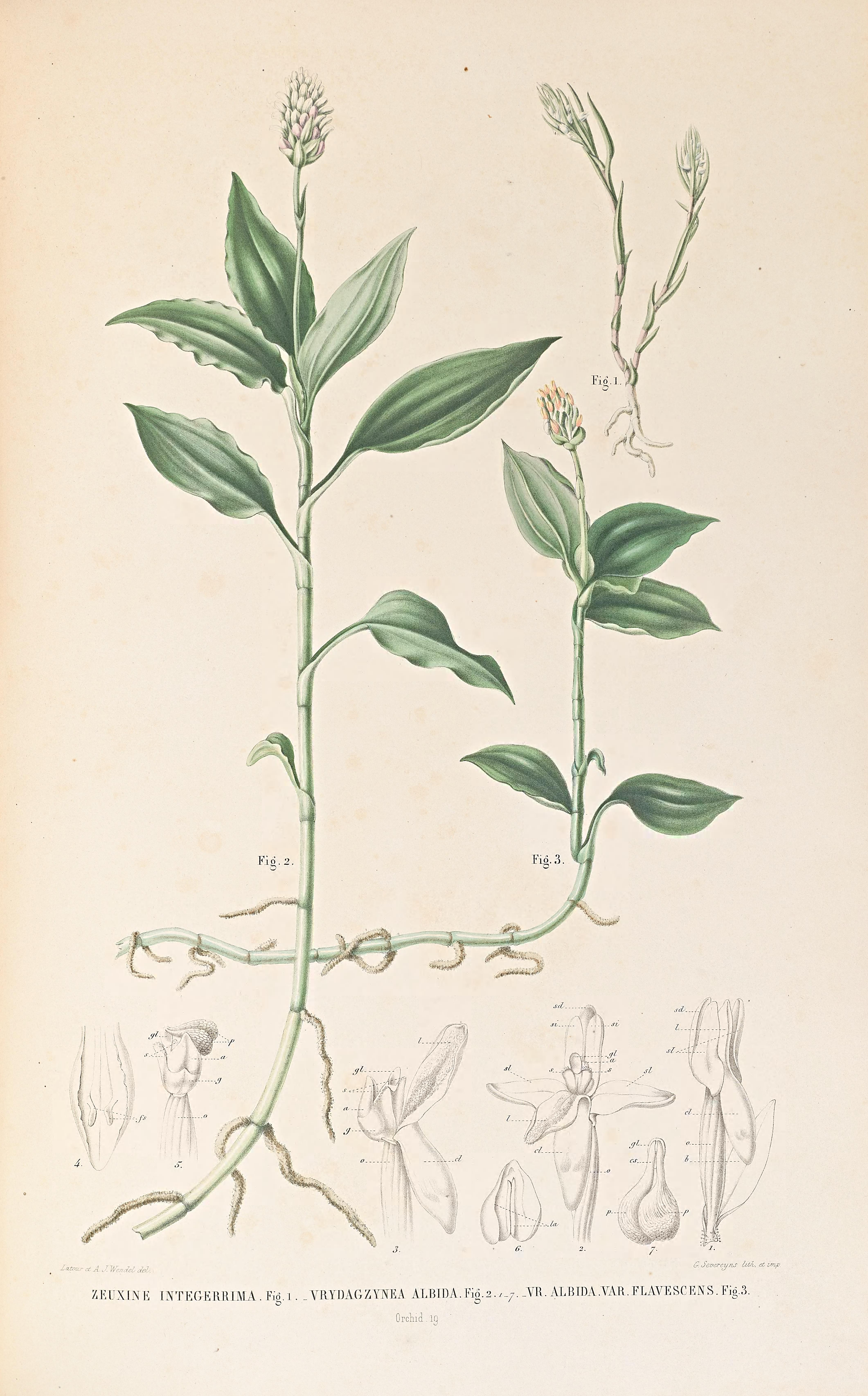 Vrydagzynea albida of "Collection des Orchidées les plus remarquables de l'archipel Indien et du Japon", published by C. G. Sulphe, Amsterdam